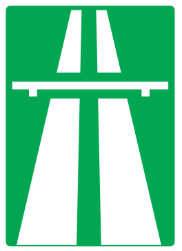 Highway begin in Cyprus